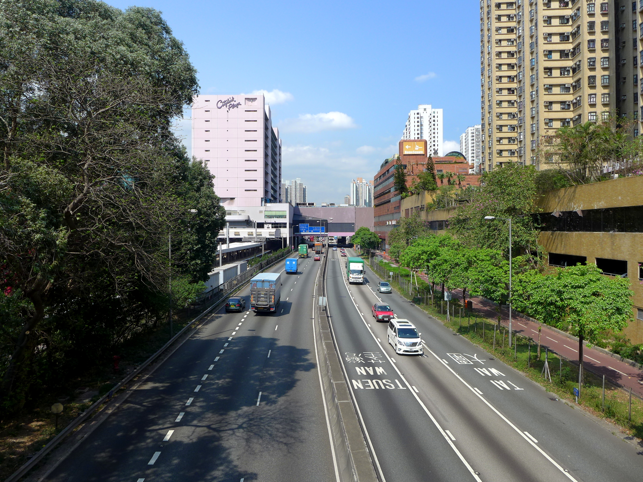 Tai Po Road Shatin Section 大埔公路－沙田